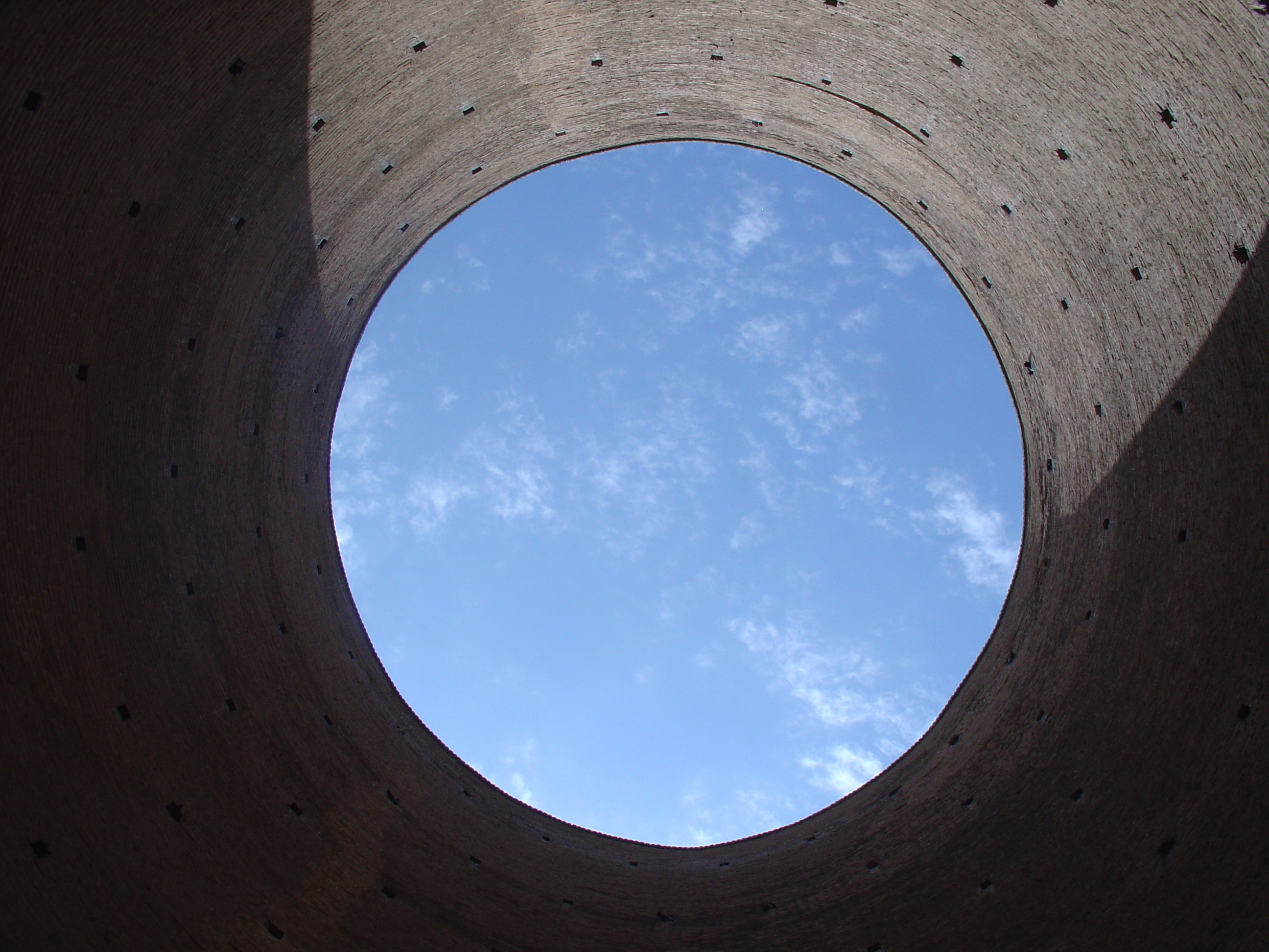 View upward inside Toghrul Tower, Ray, Iran. 12th century tomb of Seljuk ruler Toğrül.